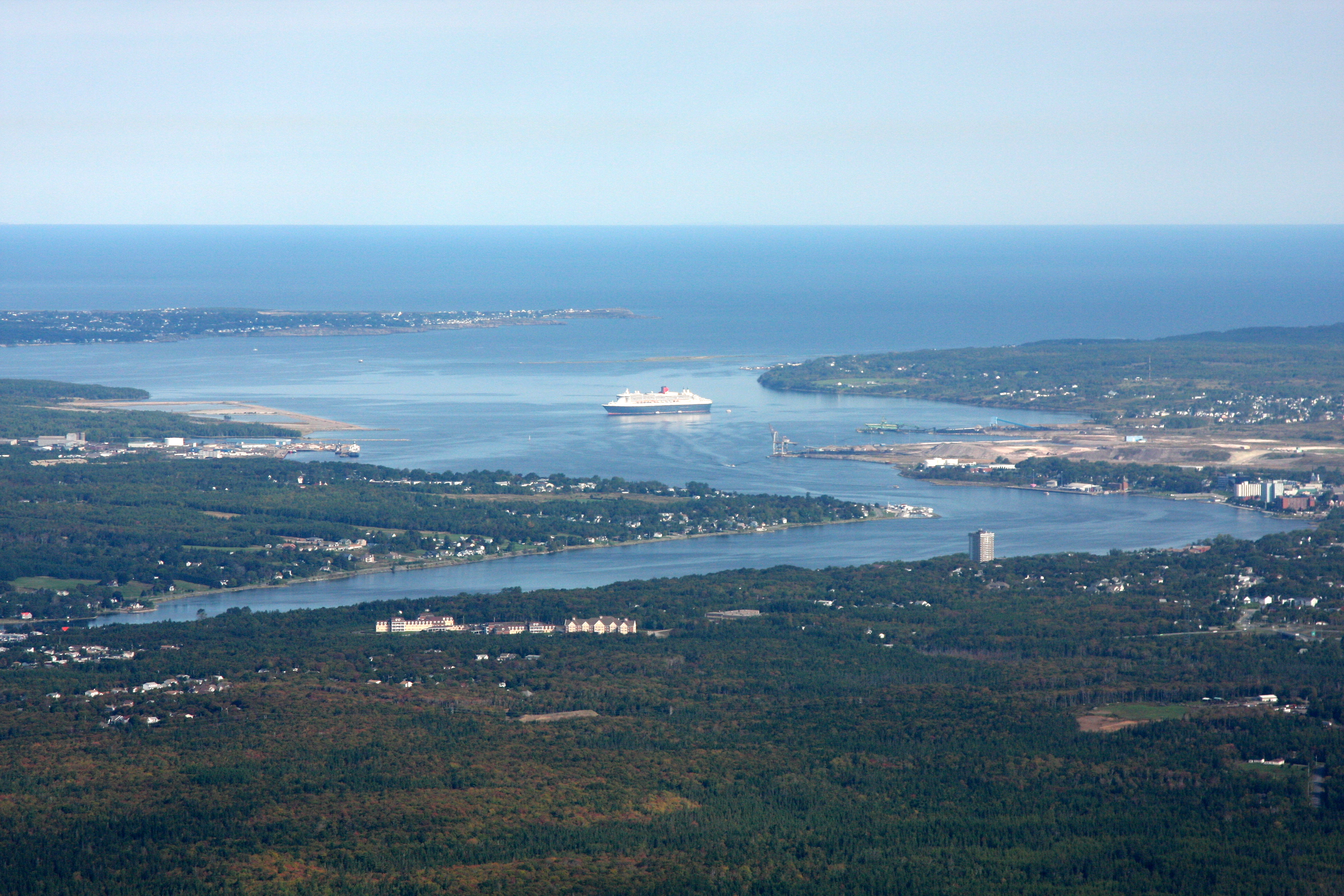 The RMS Queen Mary 2 visiting Sydney, Cape Breton Island on October 1st, 2016. RMS Queen Mary 2 is the flagship of Cunard Line and is one of the larges cruise ships in the world.She is an Ocean Liner, built for crossing the Atlantic Ocean, though she is regularly used for cruising; in the winter season she cruises from New York to the Caribbean on twelve- or thirteen-day tours.